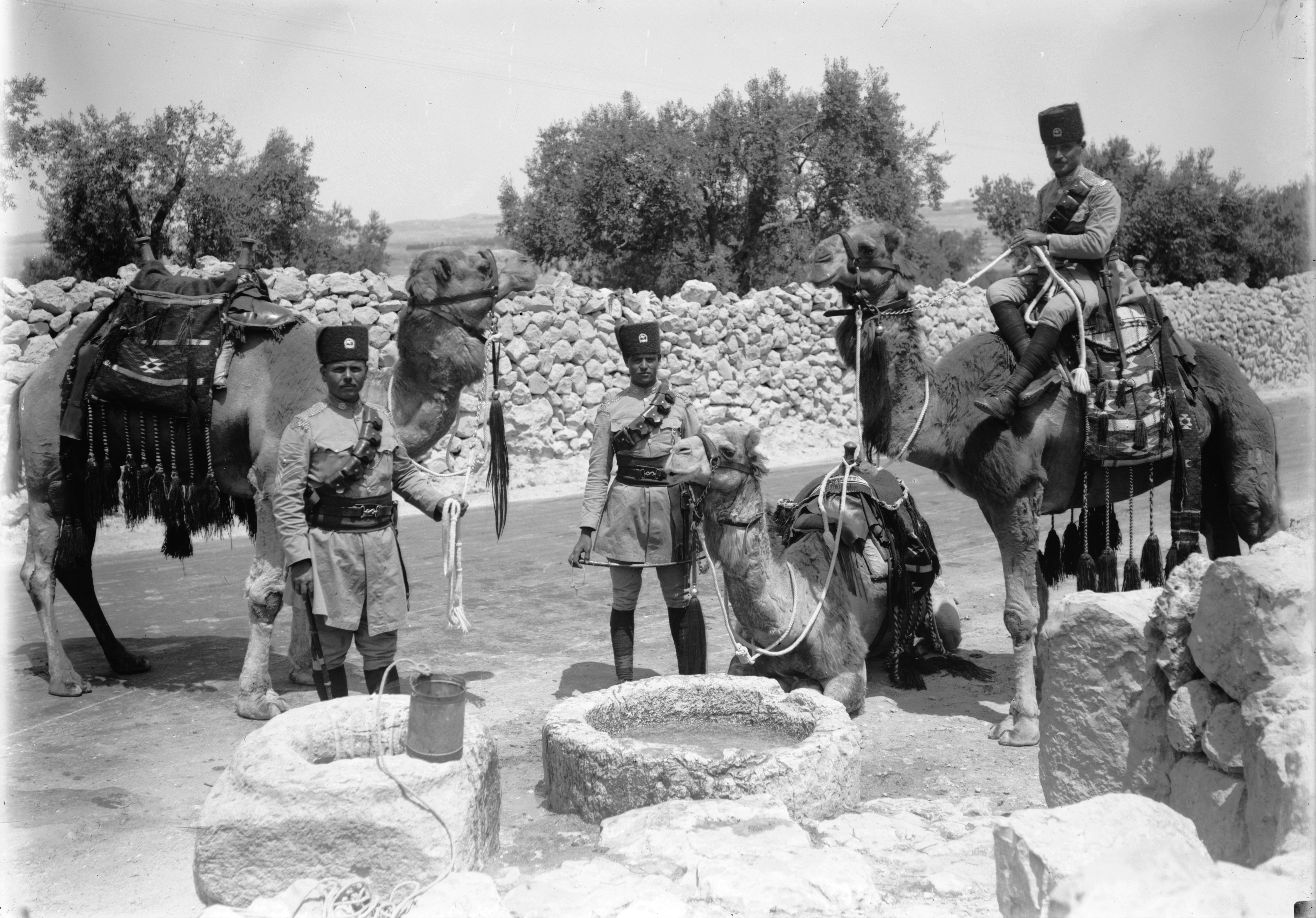 Well of Magi with three camels of Transjordan frontier guards.